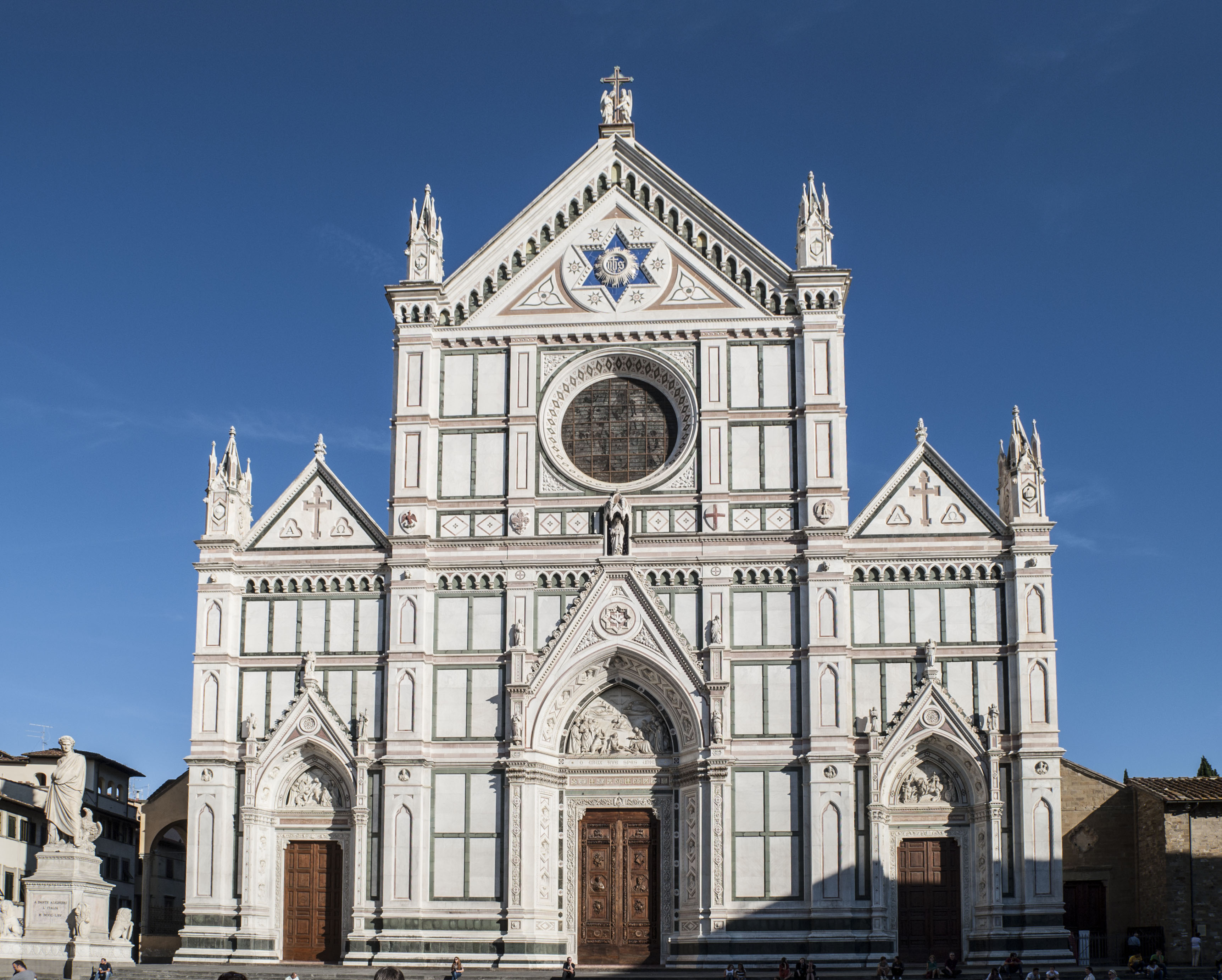 Santa Croce (Florence) - Facade